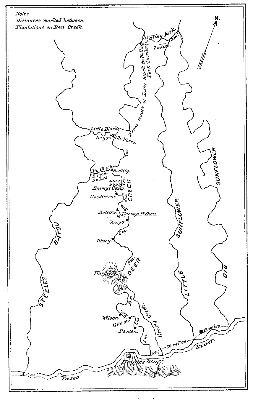 Map of the area affected by the Steele's Bayou Expedition of the American Civil War, March 1863, with emphasis on locations of Confederate defenses.